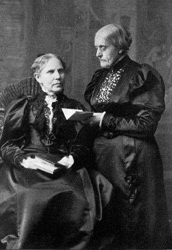 Susan B. Anthony was a leading suffragist. Mary Anthony, her sister, was a school principal in Rochester, New York, and was also a suffragist.